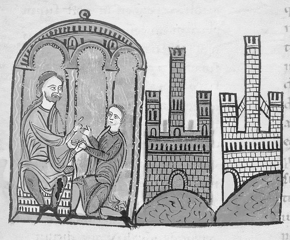 Liber Feudorum Maior - Miniature of Bernard I of Besalú commending his patrimony to his son, William I of Besalú